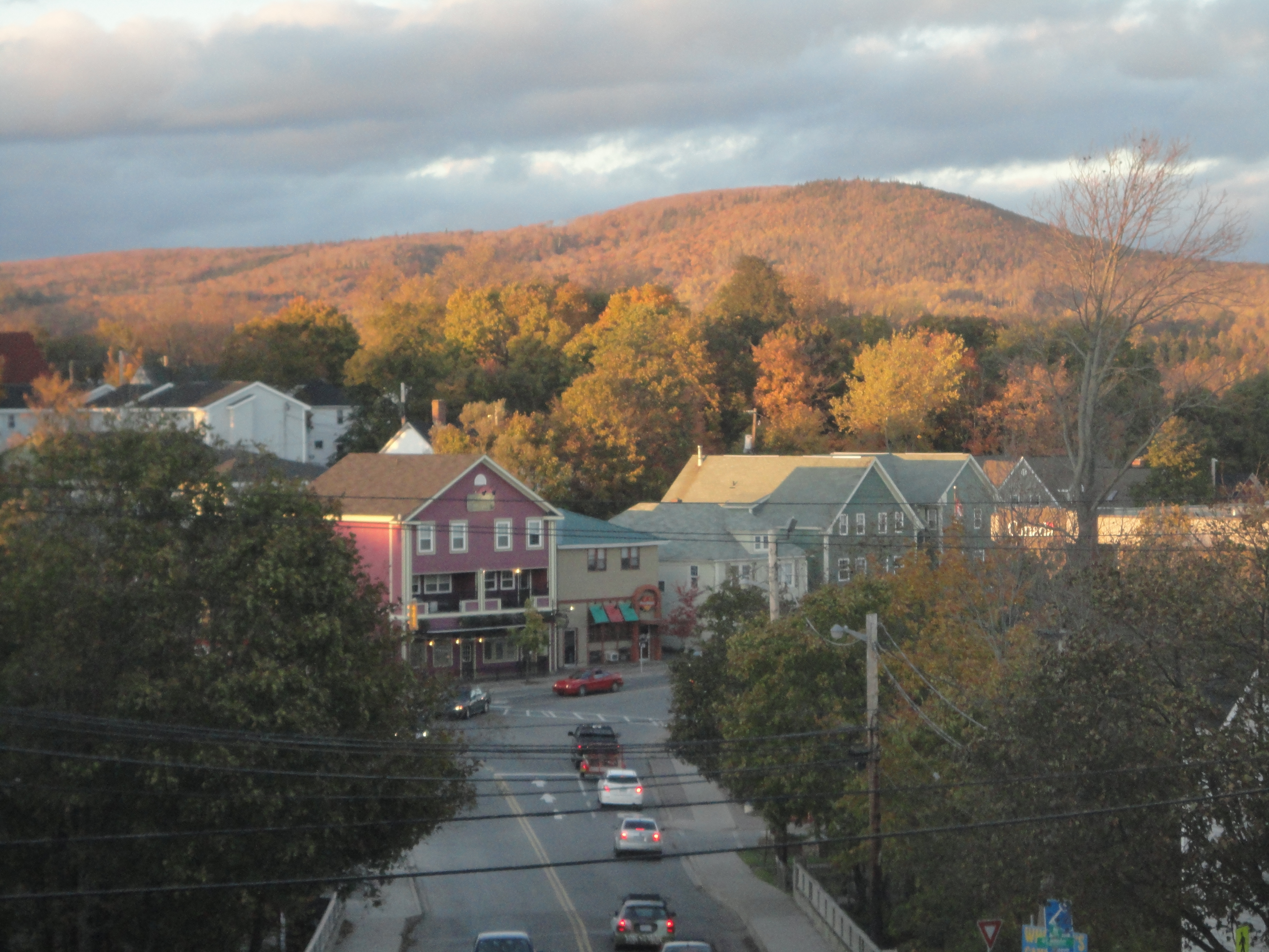 Main Street Antigonish, Nova Scotia.